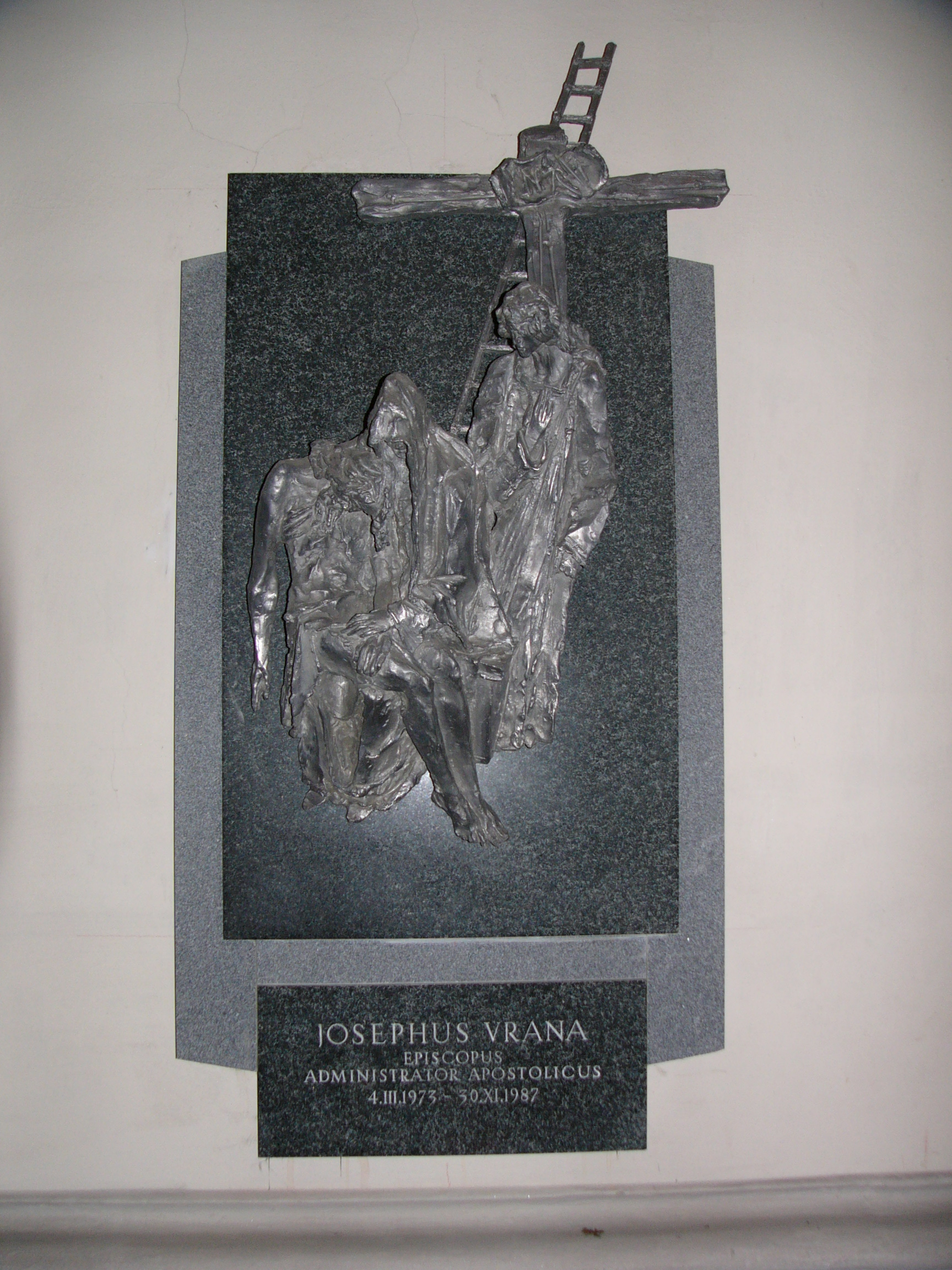 Tombstone of Josef Vrana in St. Wenceslaus cathedral in Olomouc (Czech Republic).